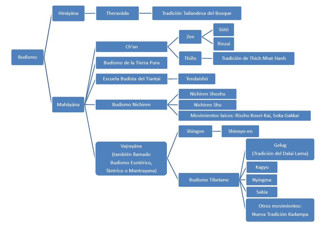 Scheme of the main Buddhist schools in the world